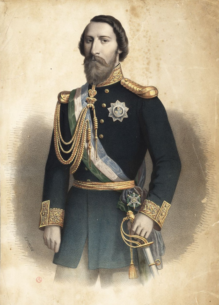 King-consort Dom Fernando II of Portugal, husband of Queen Maria II.